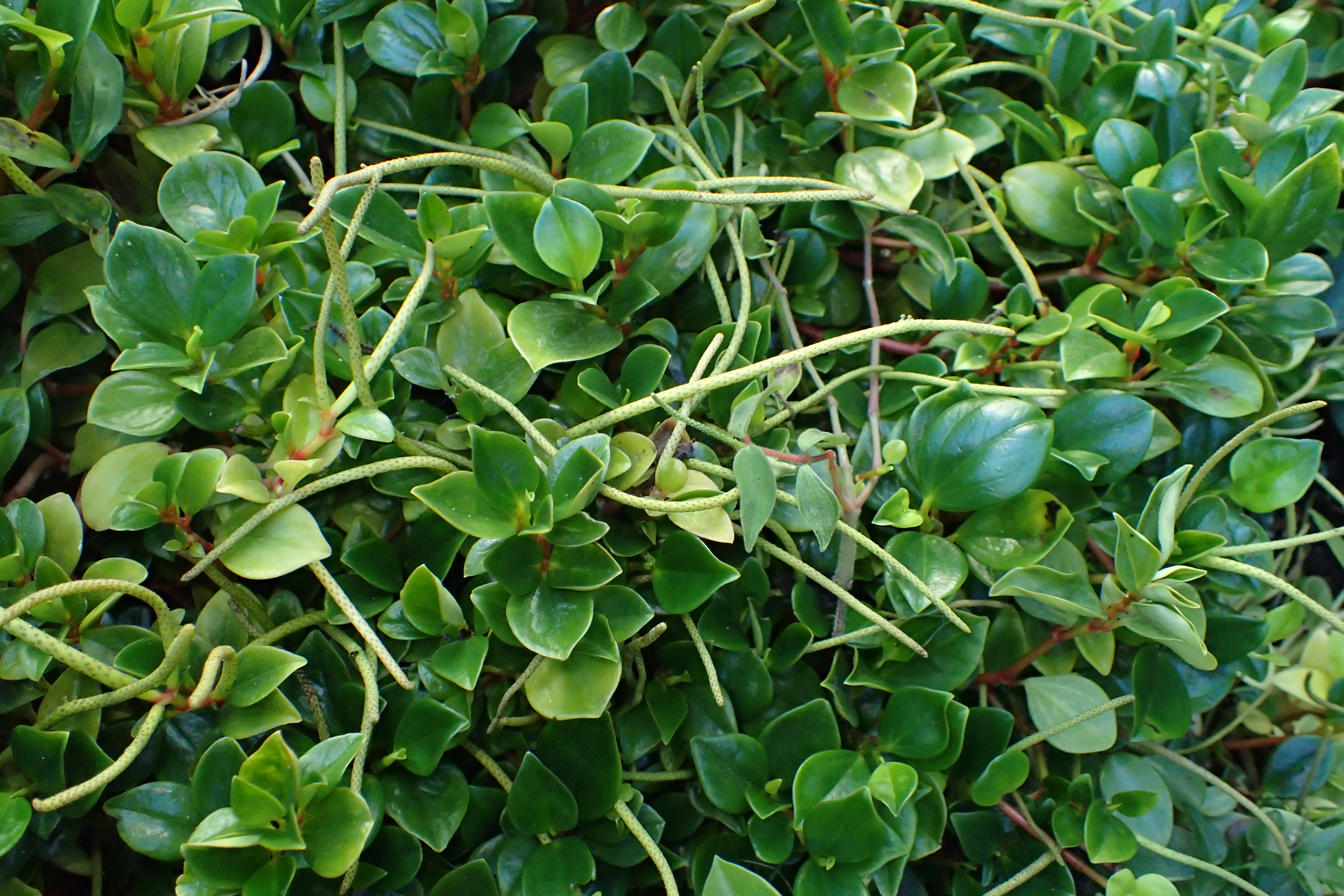 Peperomia glabella in Botanical Garden of PBA Institute in Bydgoszcz